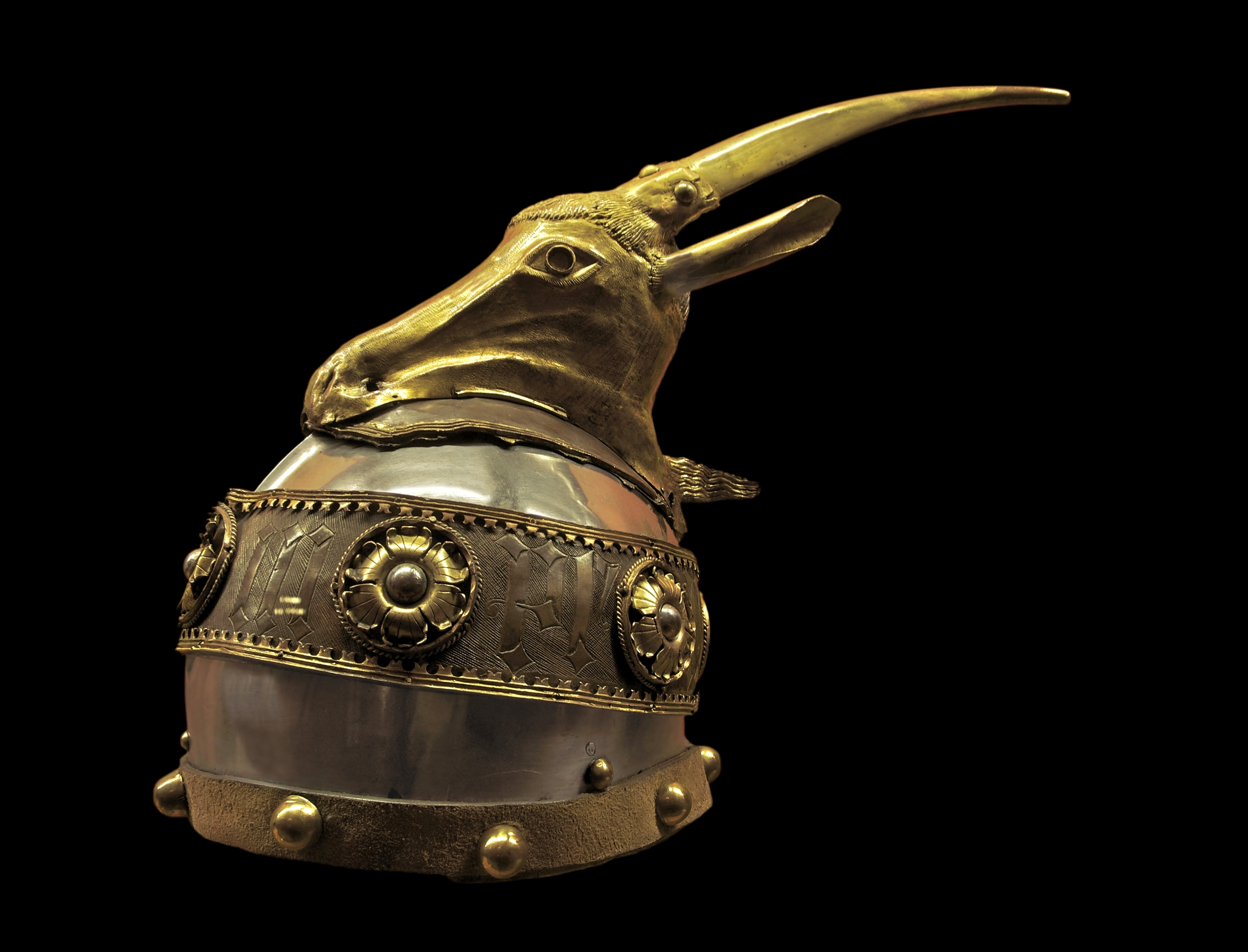 the Skanderbeg (1403-1468) Helmet, Kunsthistorisches Museum Vienna, Austria, N°A127. This (probably italian) helmet was attributed to Skanderbeg only in the 2nd half of the 16th-century by Archduke Ferdinand II.